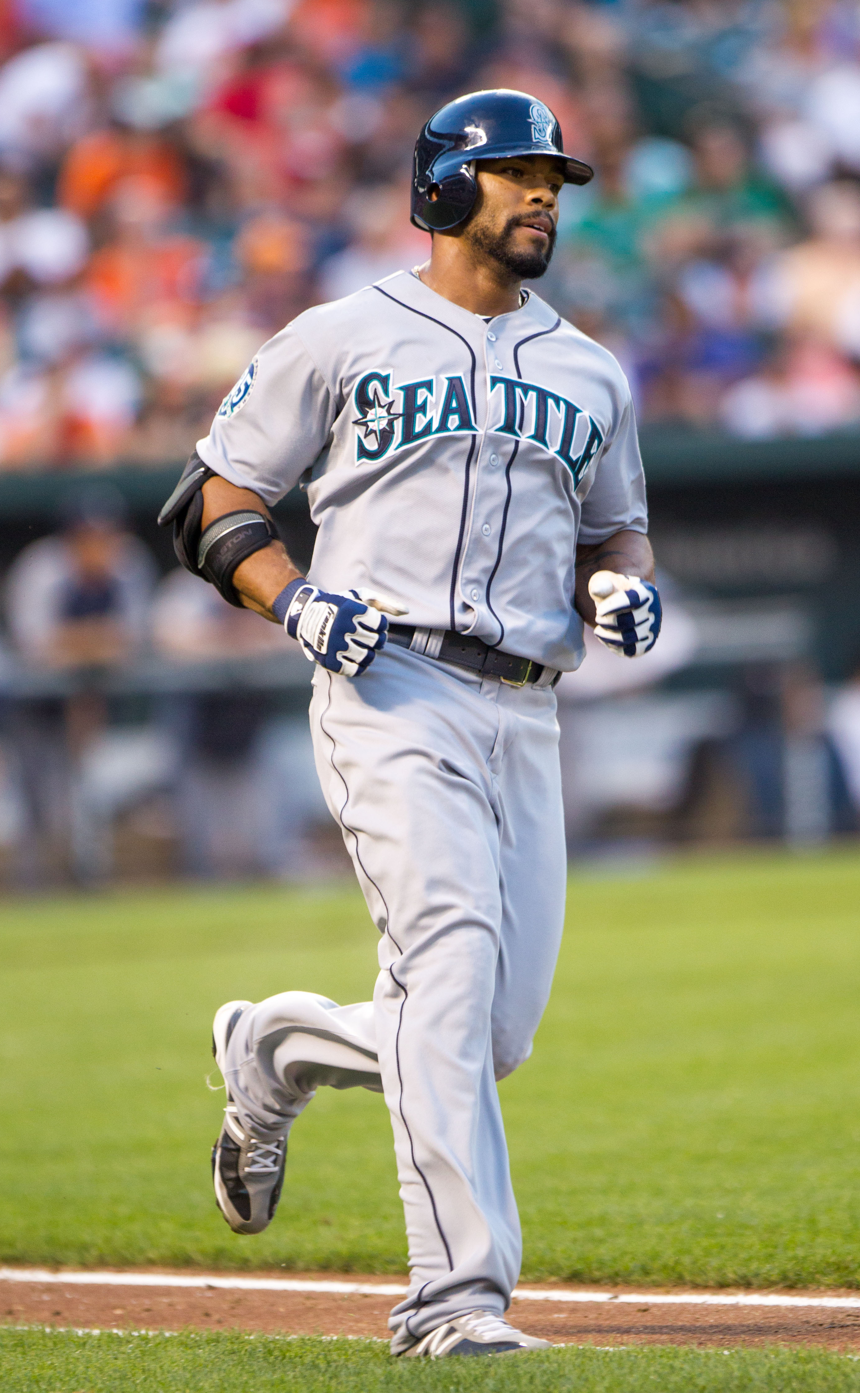 Eric Thames